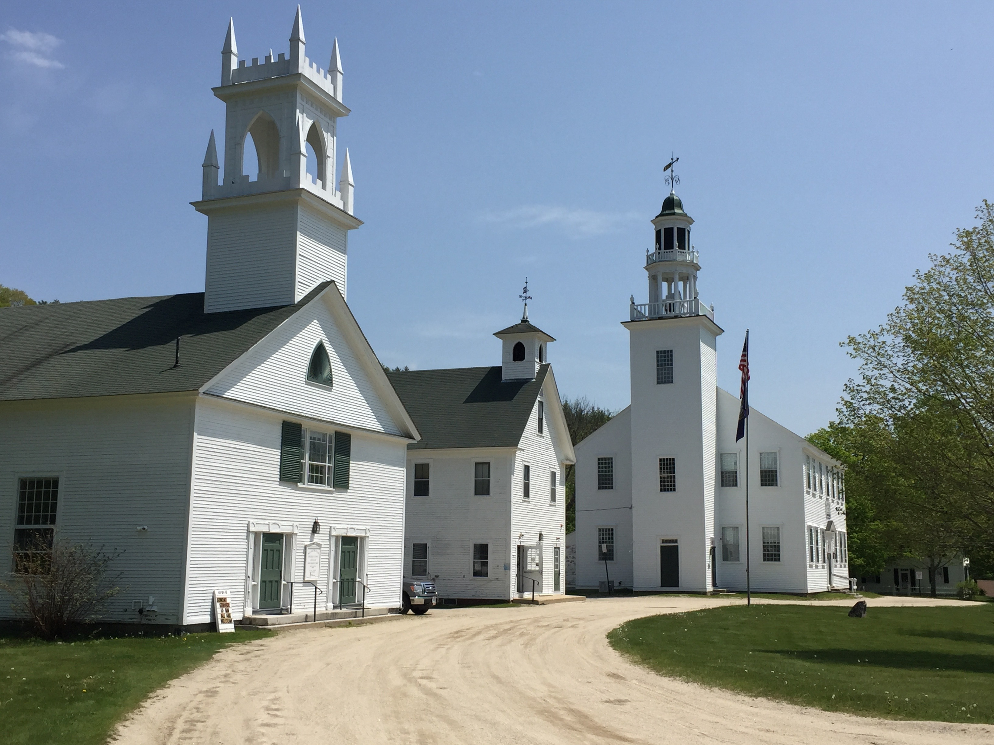 Historic buildings in the center of Washington, New Hampshire, May 2016